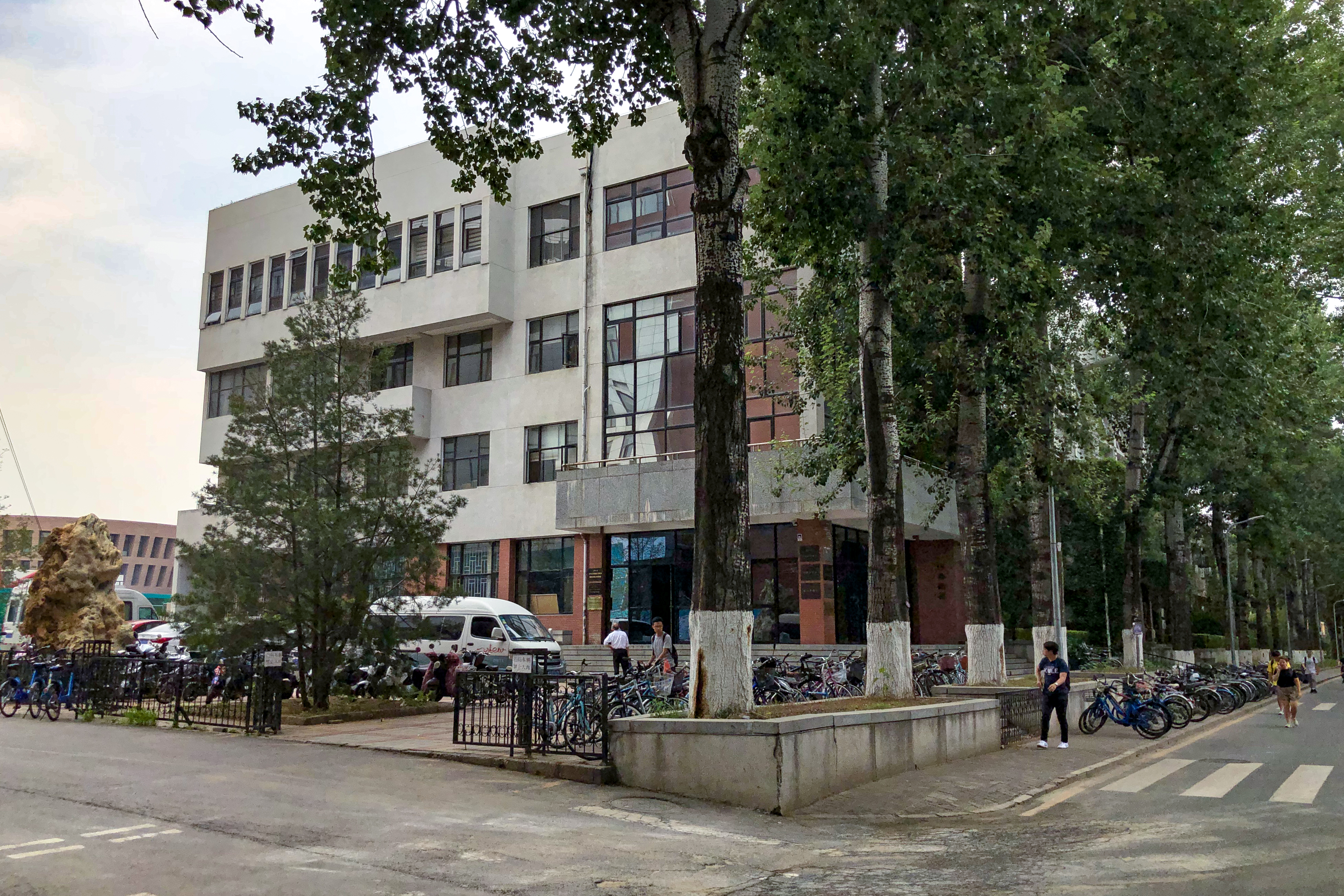 This is the current headquarters of the department of civil engineering.